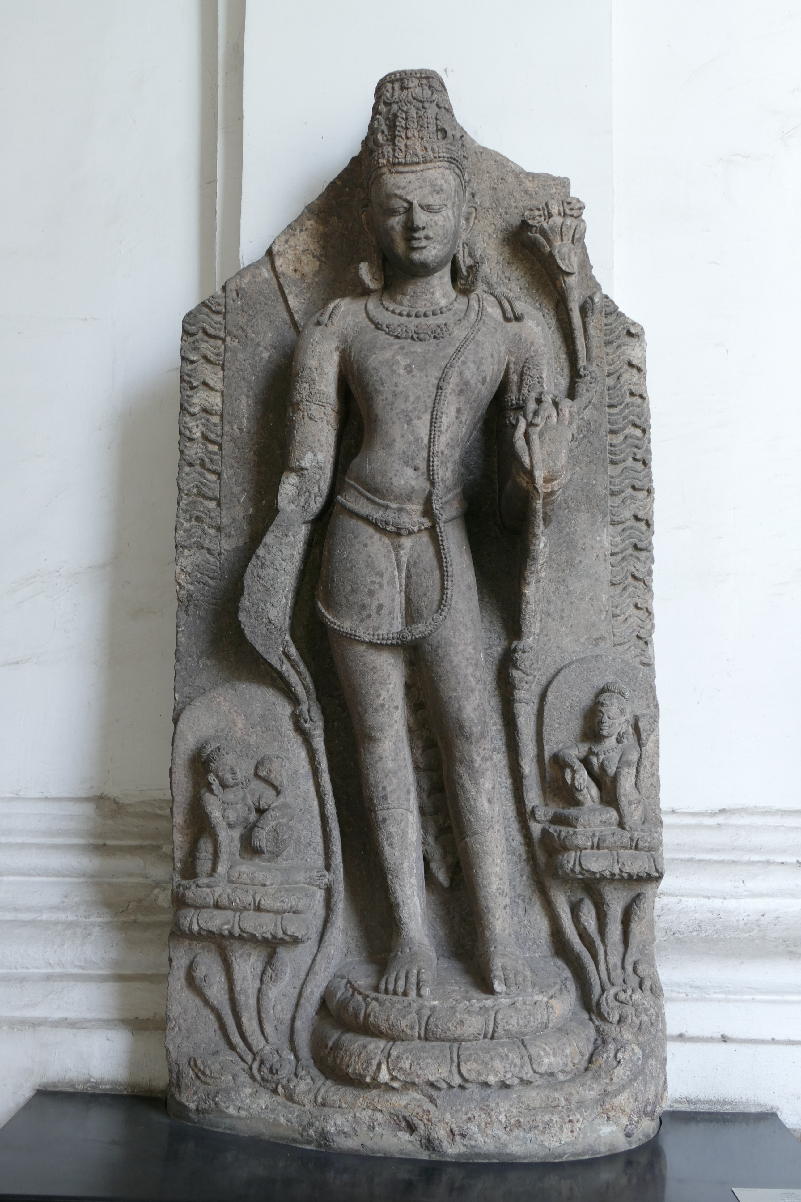 Vajrapani, Khondalite, ca 10th century, Lalitgiri, Odisha